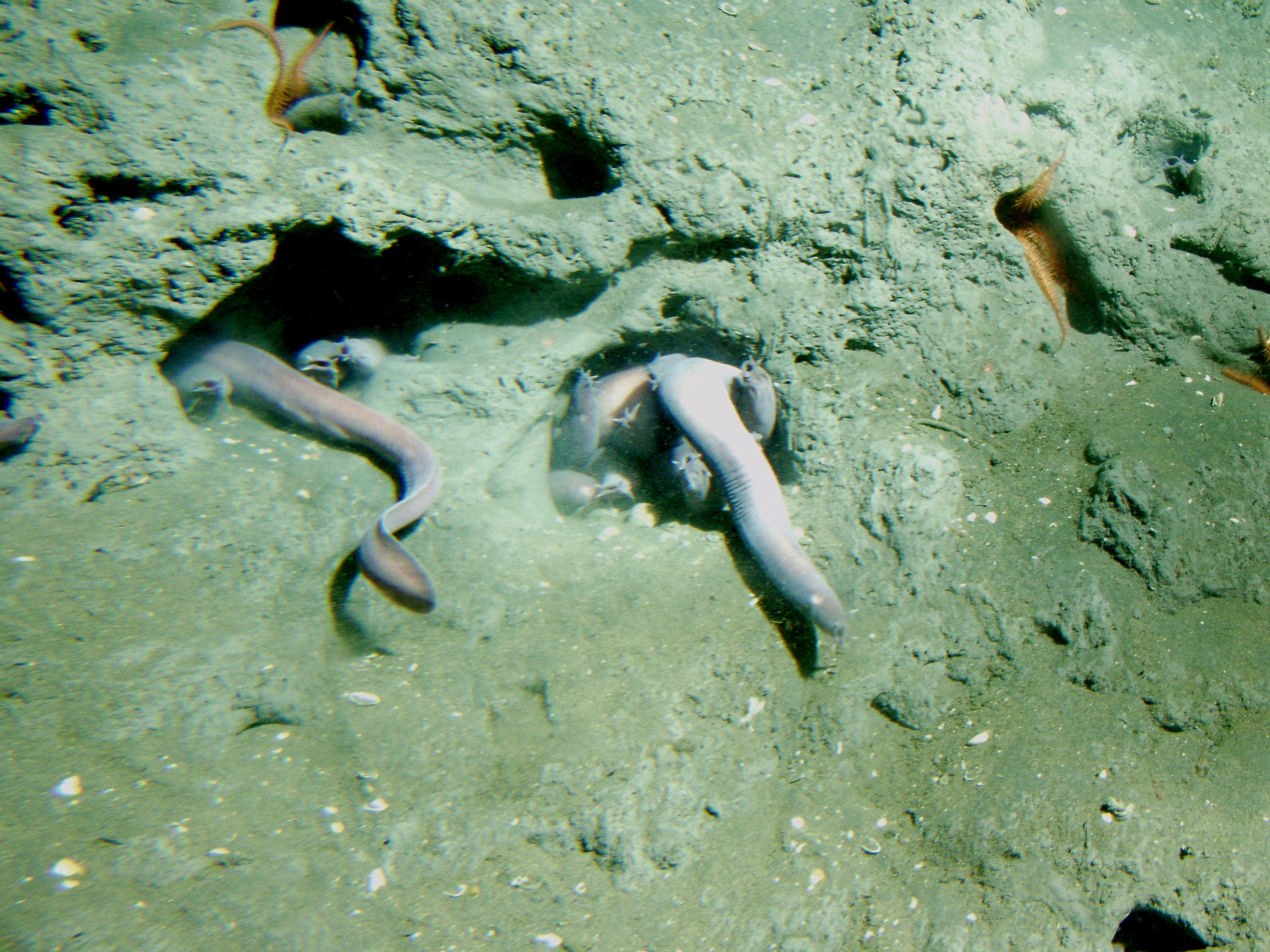 Pacific hagfish (Eptatretus stoutii) in a hole at 150 meters depth. Latitude 37 58 N., Longitude 123 27 W. Location: California, Cordell Bank National Marine Sanctuary.